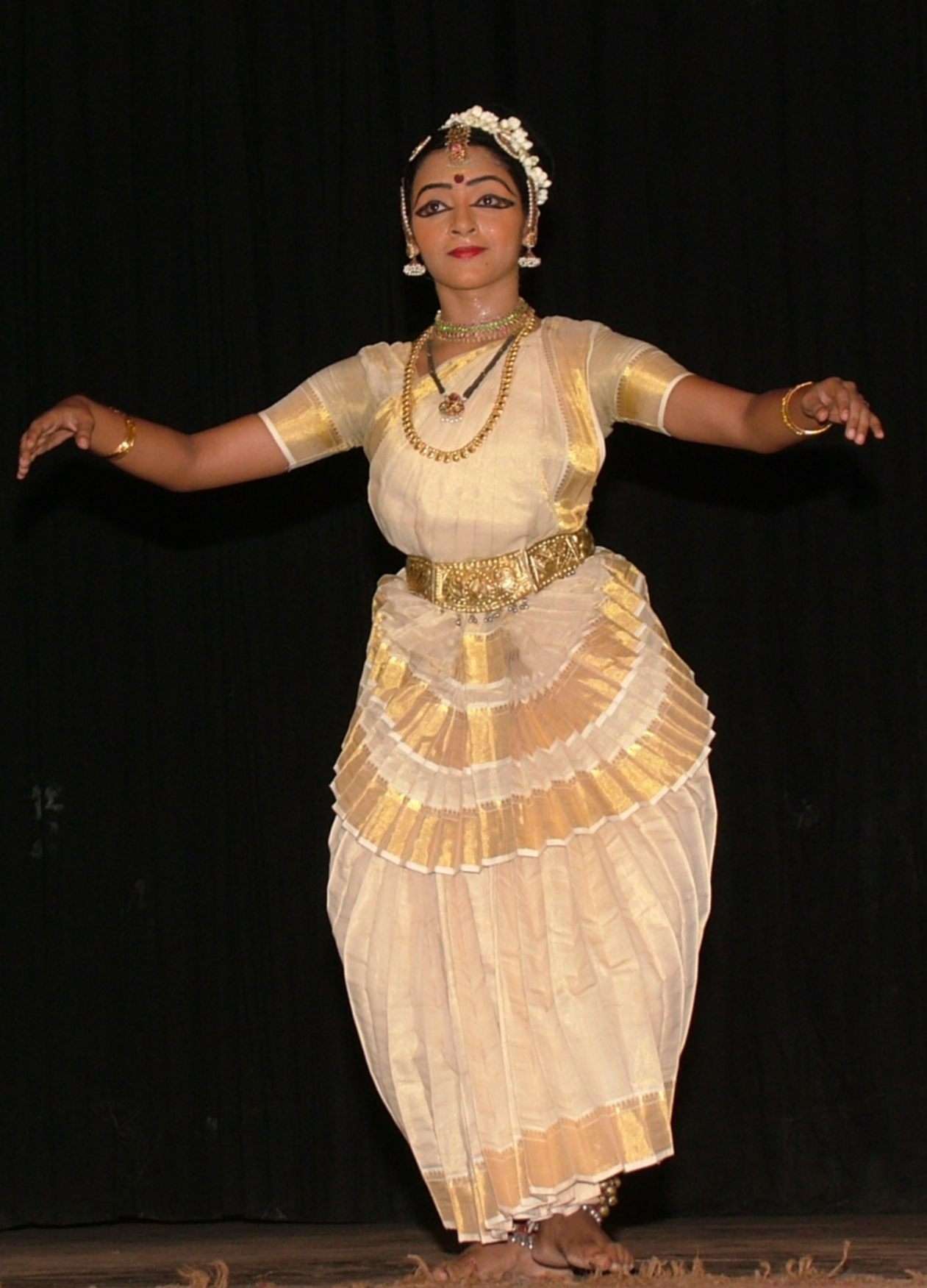 Kapila, is the daughter of Mohiniyattam danseuse Nirmala Paniker and Kutiyattam exponent Venuji